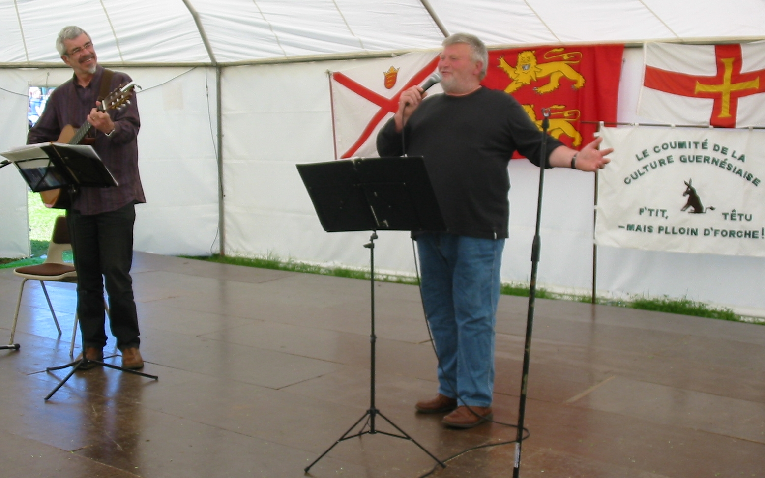 Fête des Rouaisouns, Jersey 2008